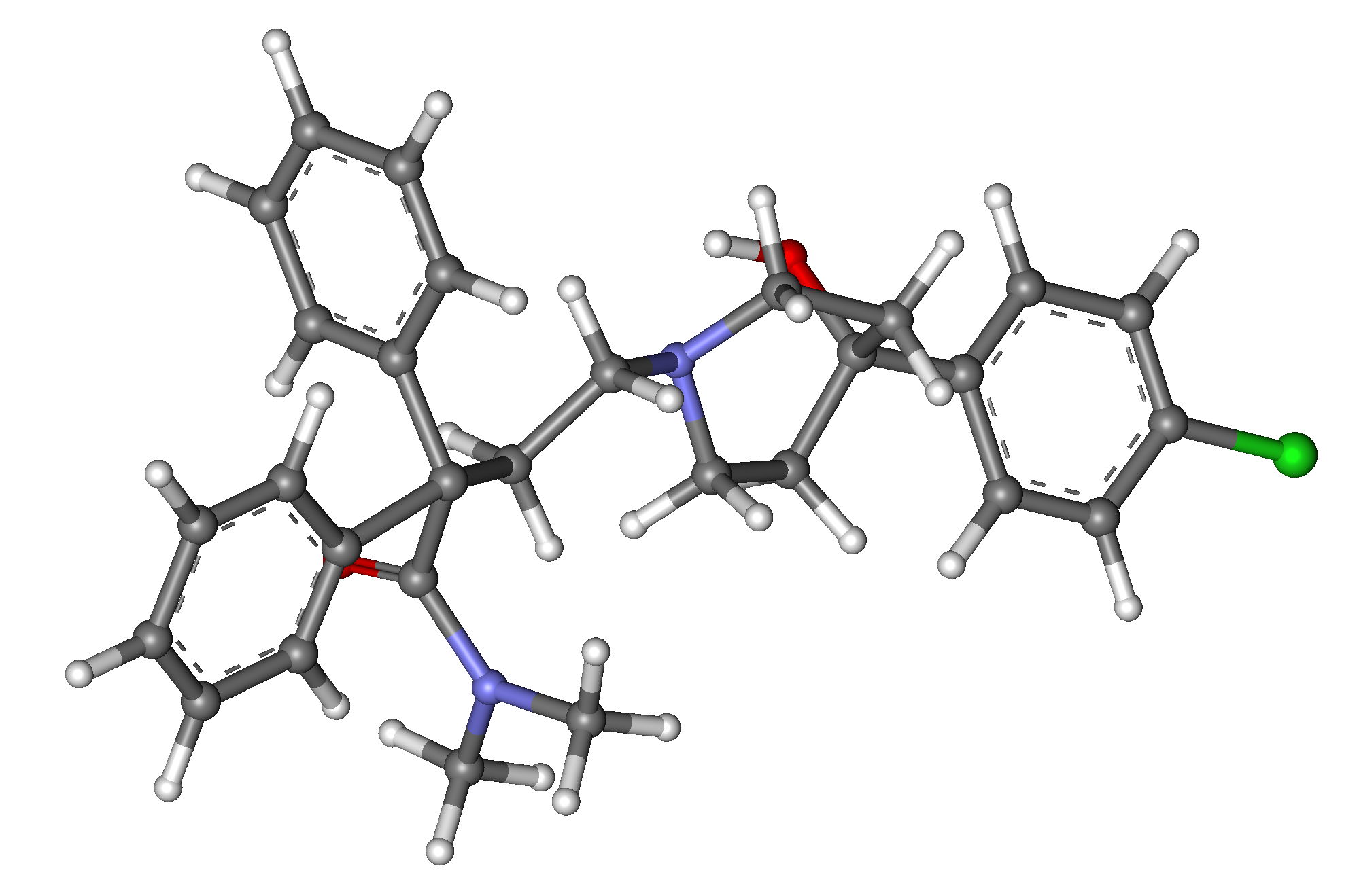 Ball-and-stick model of loperamide molecule. The structure is taken from ChemSpider. ID 3818